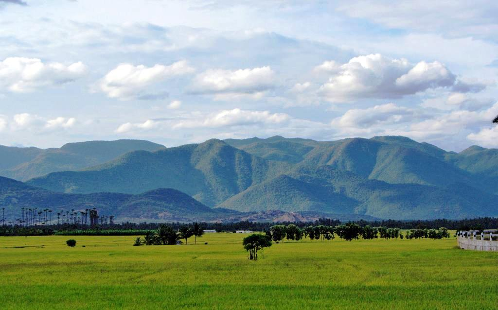 Western Ghats as seen from Gobichettipalayam